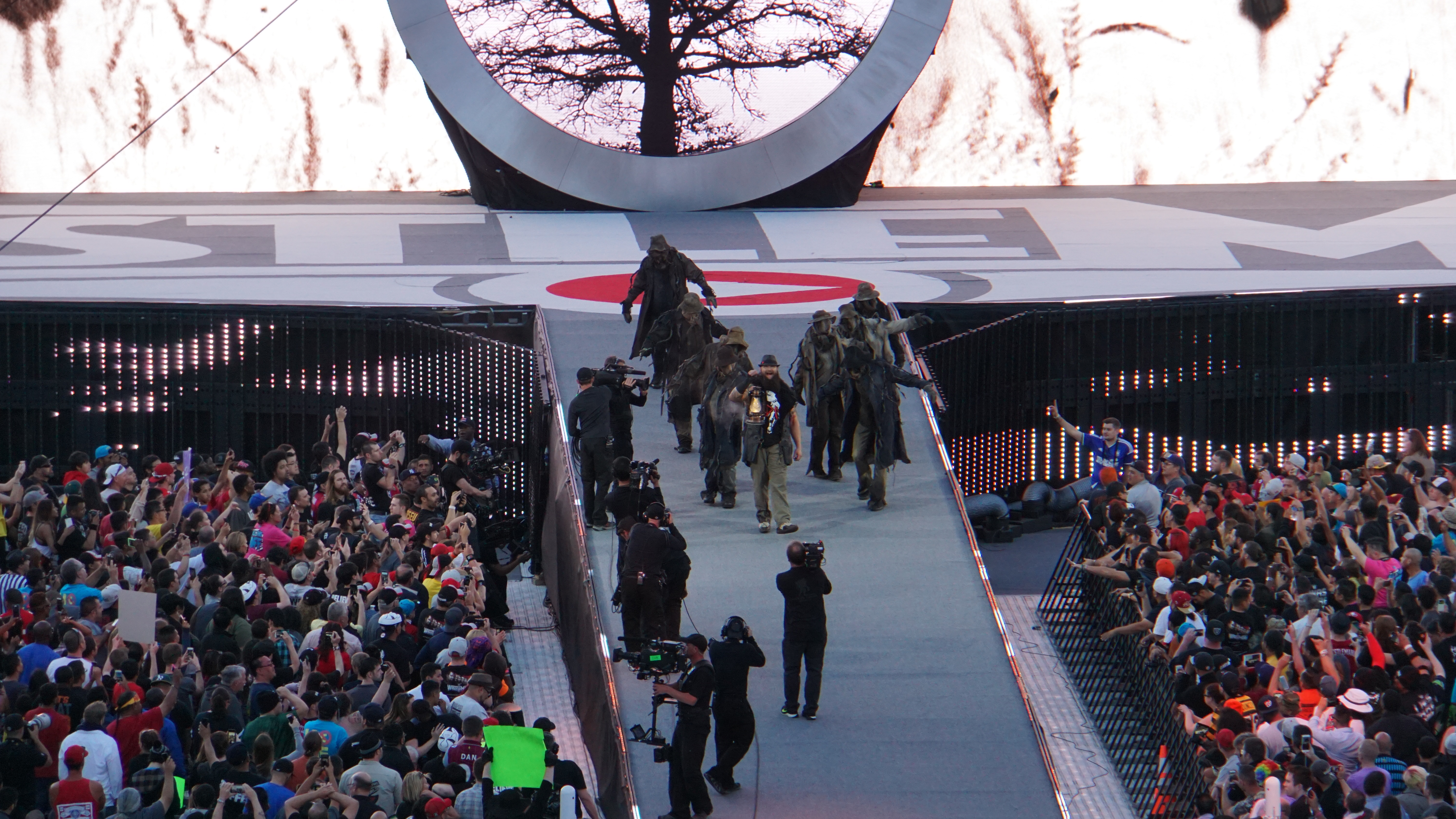 2015-03-29_19-02-00_ILCE-6000_DSC09155